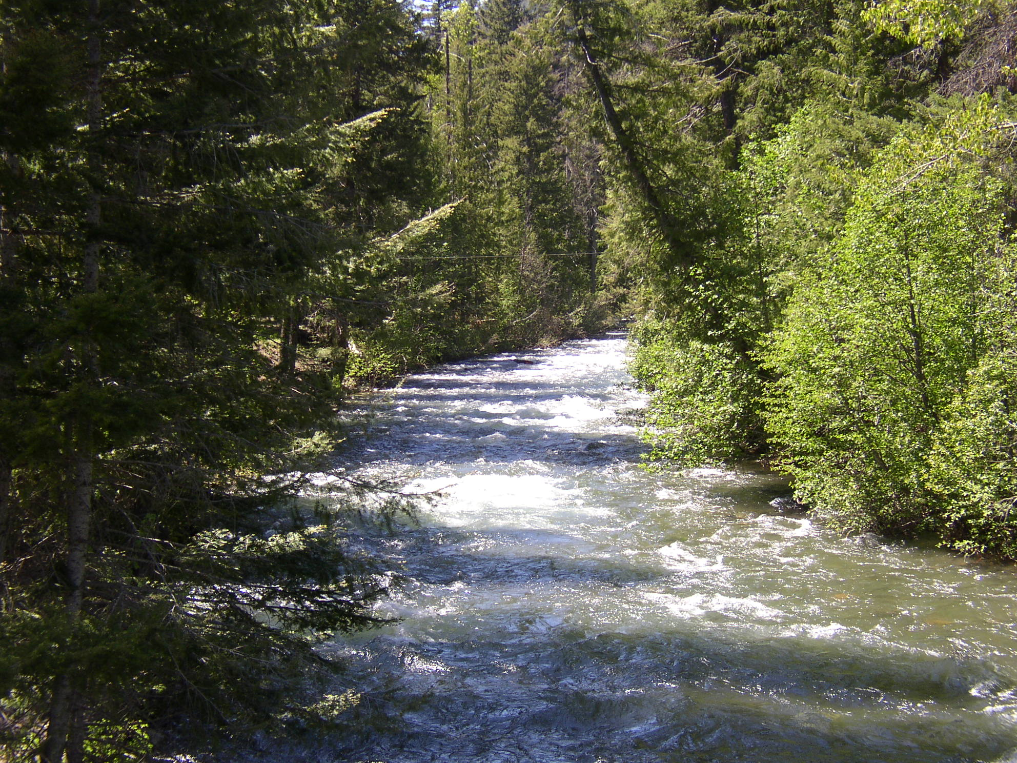 The Bumping River is a tributary of the Naches River, in Washington in the United States. It flows down the east side of the Cascade Range, through riparian forests in the Wenatchee National Forest and the William O. Douglas Wilderness. From its source at Fish Lake near Crag Mountain, it flows northeast to Bumping Lake, a natural lake enlarged and regulated by Bumping Lake Dam. Below the dam, the Bumping River continues flowing northeast. It is joined by the American River, its main tributary, a few miles above its mouth where it joins the Little Naches River to form the Naches River.